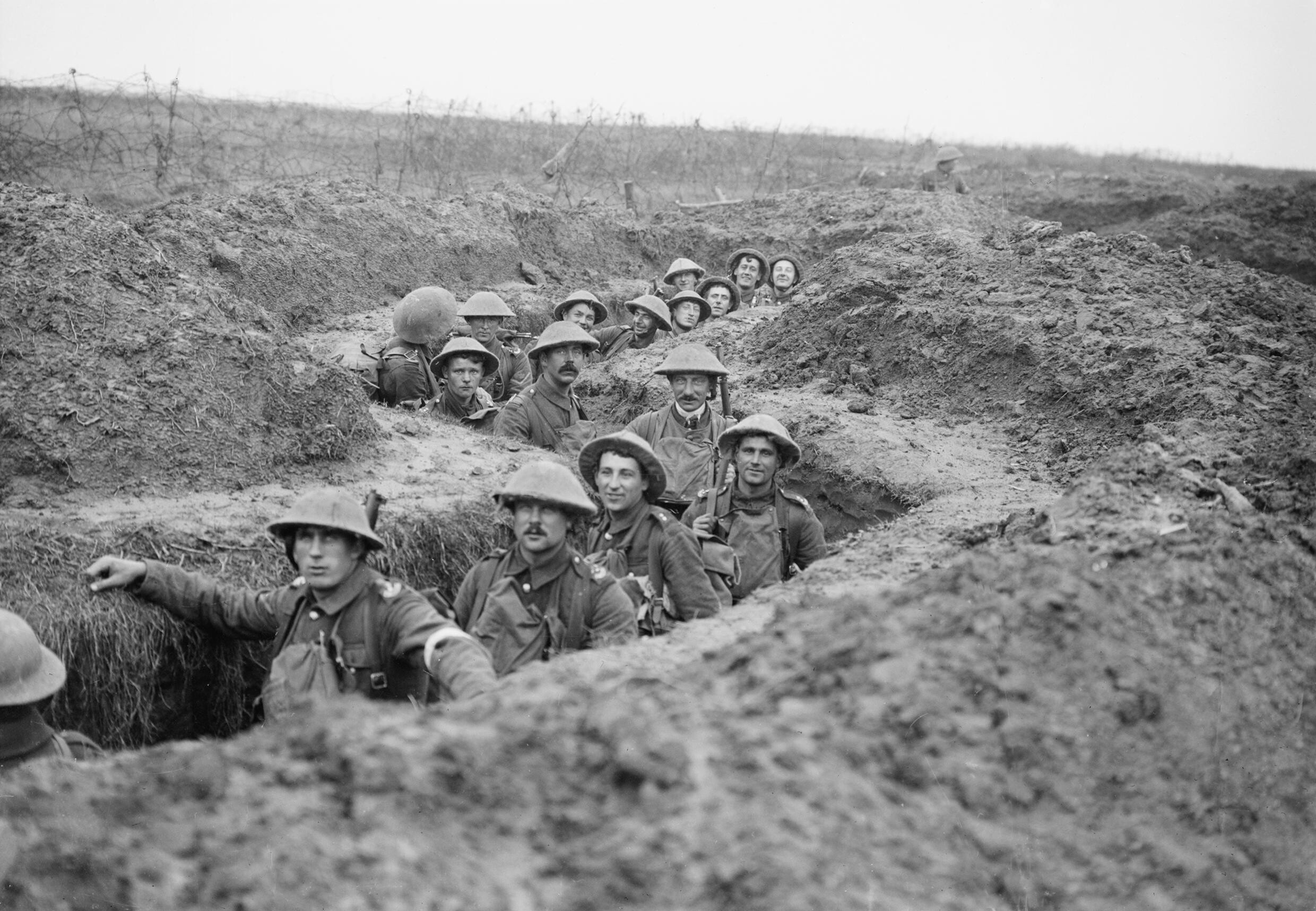 Men of the 11th Battalion, Royal Inniskilling Fusiliers in a captured German communications trench near Havrincourt during the Battle of Cambrai.